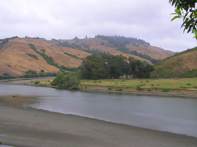 The Russian River downstream of Duncan's Mills, California, looking roughly southward (with the river flowing rightward toward the Pacific Ocean). Taken on 9th June en:2004 by User:Finlay McWalter with an Olympus CZ-750 digital camera